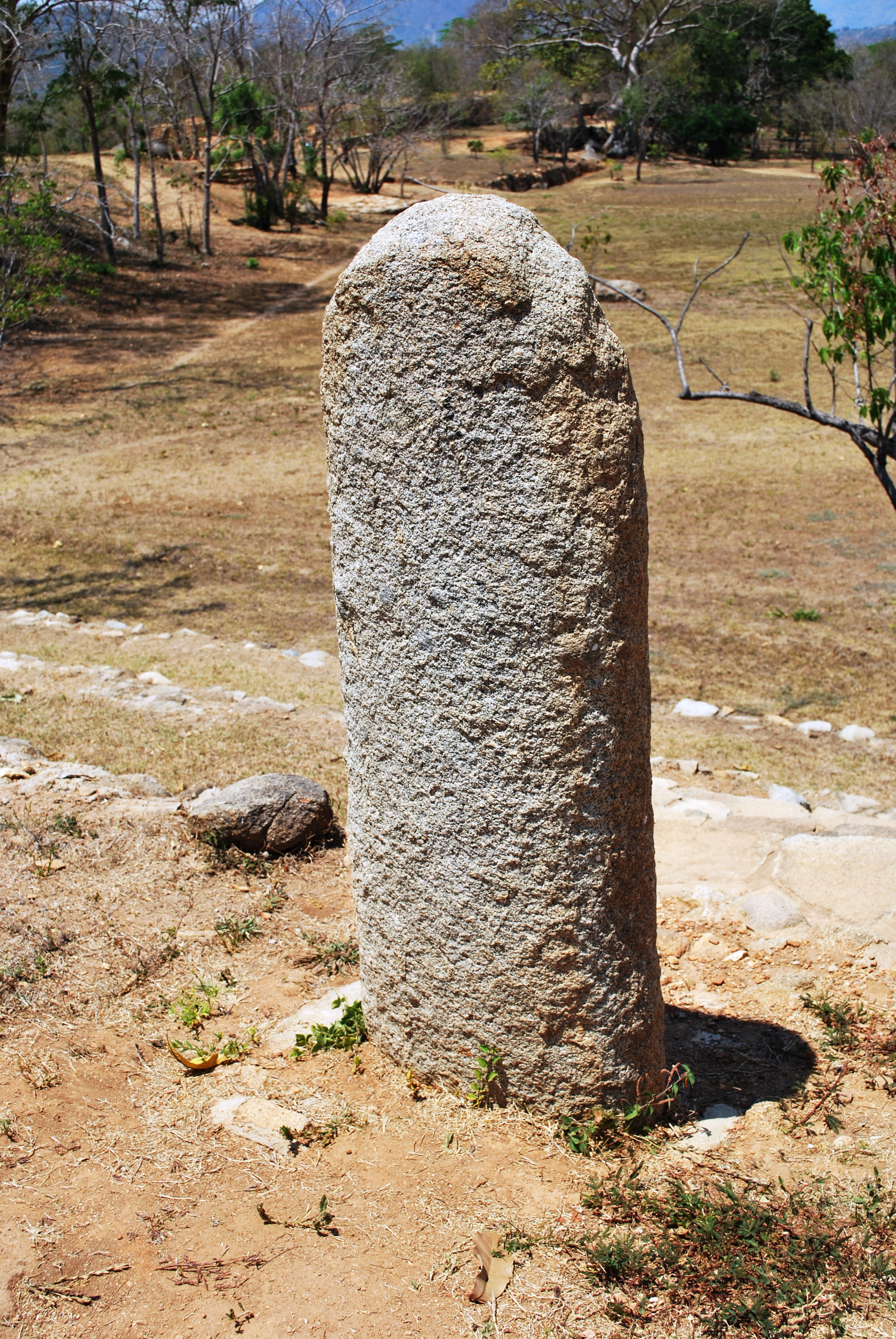 Stele at the Estructura Anona at Tehuacalco, Guerrero